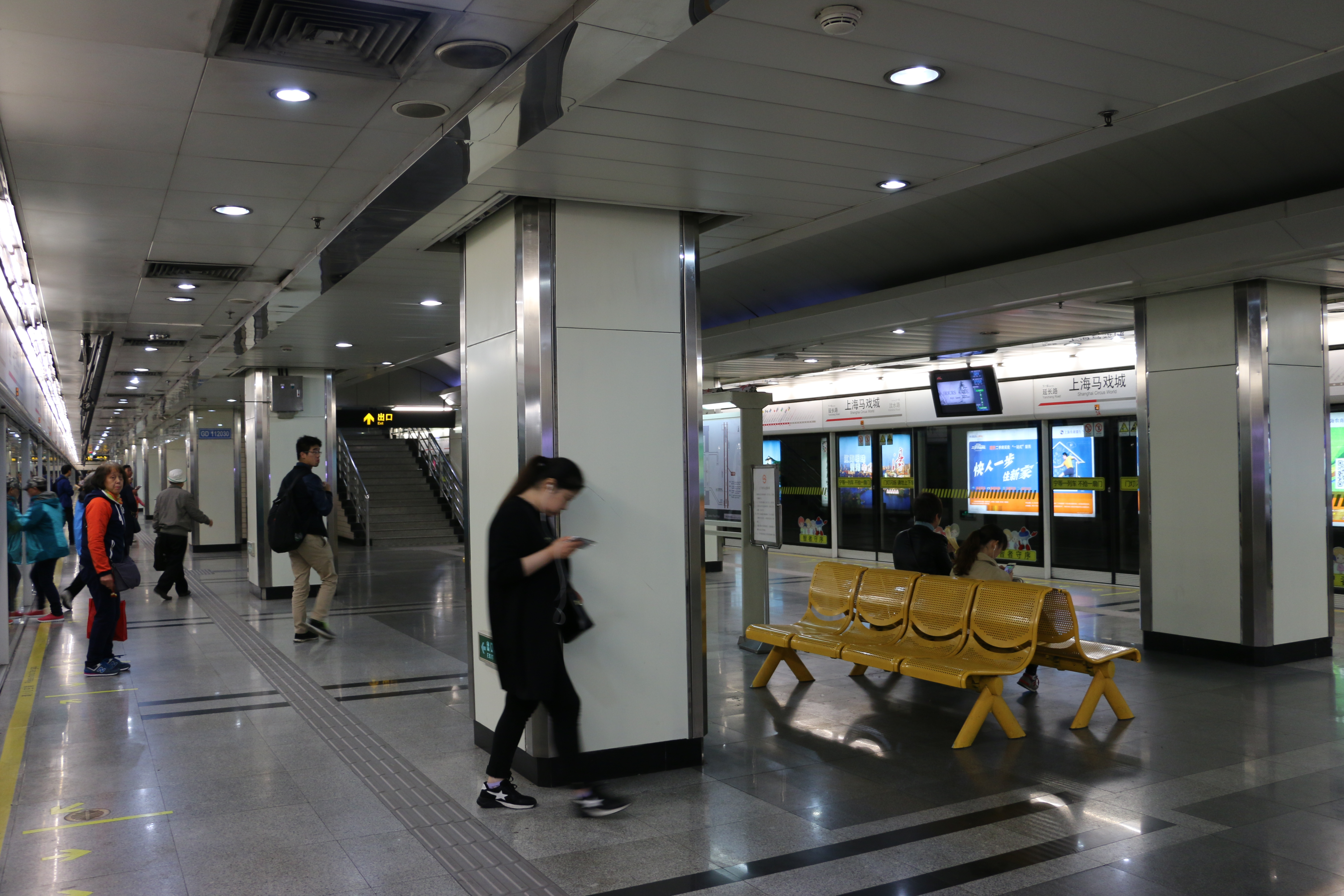 201604 Platform of Shanghai Circus World Station